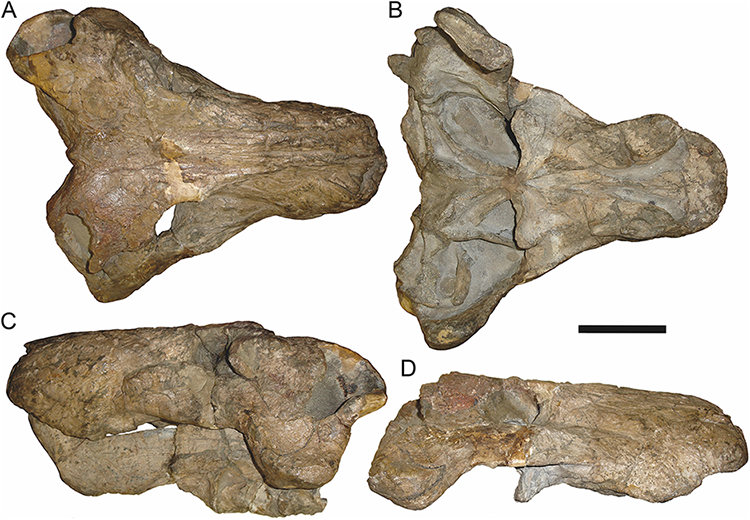 Referred specimen (BP/1/803) of Leontosaurus vanderhorsti Broom & George, 1950 in (A) dorsal, (B) ventral, (C) left lateral, and (D) right lateral view. Holotype of Rubidgea platyrhina Brink & Kitching, 1953. Scale bar equals 10 cm.